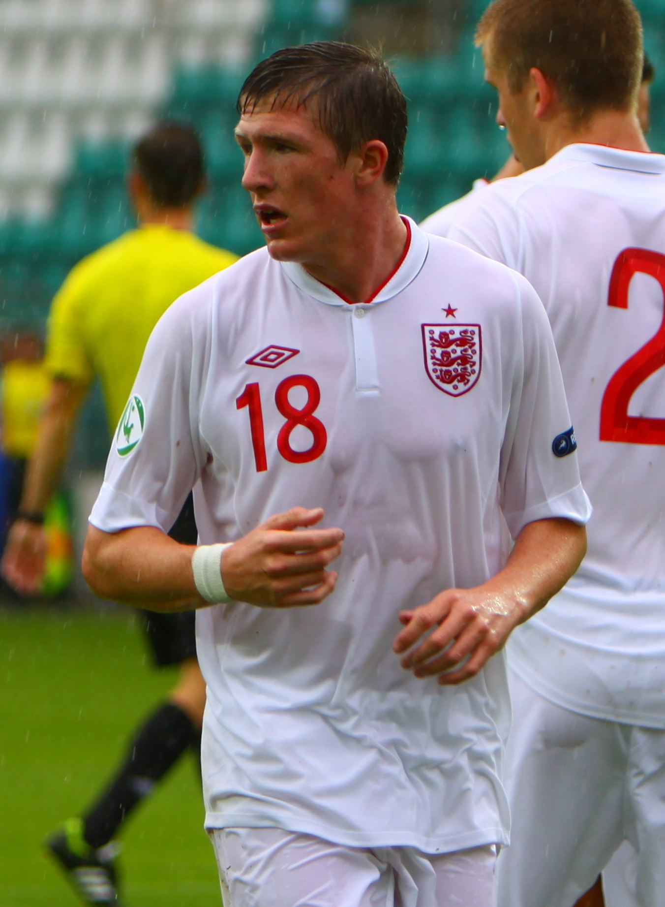 U-19 England vs Greece.